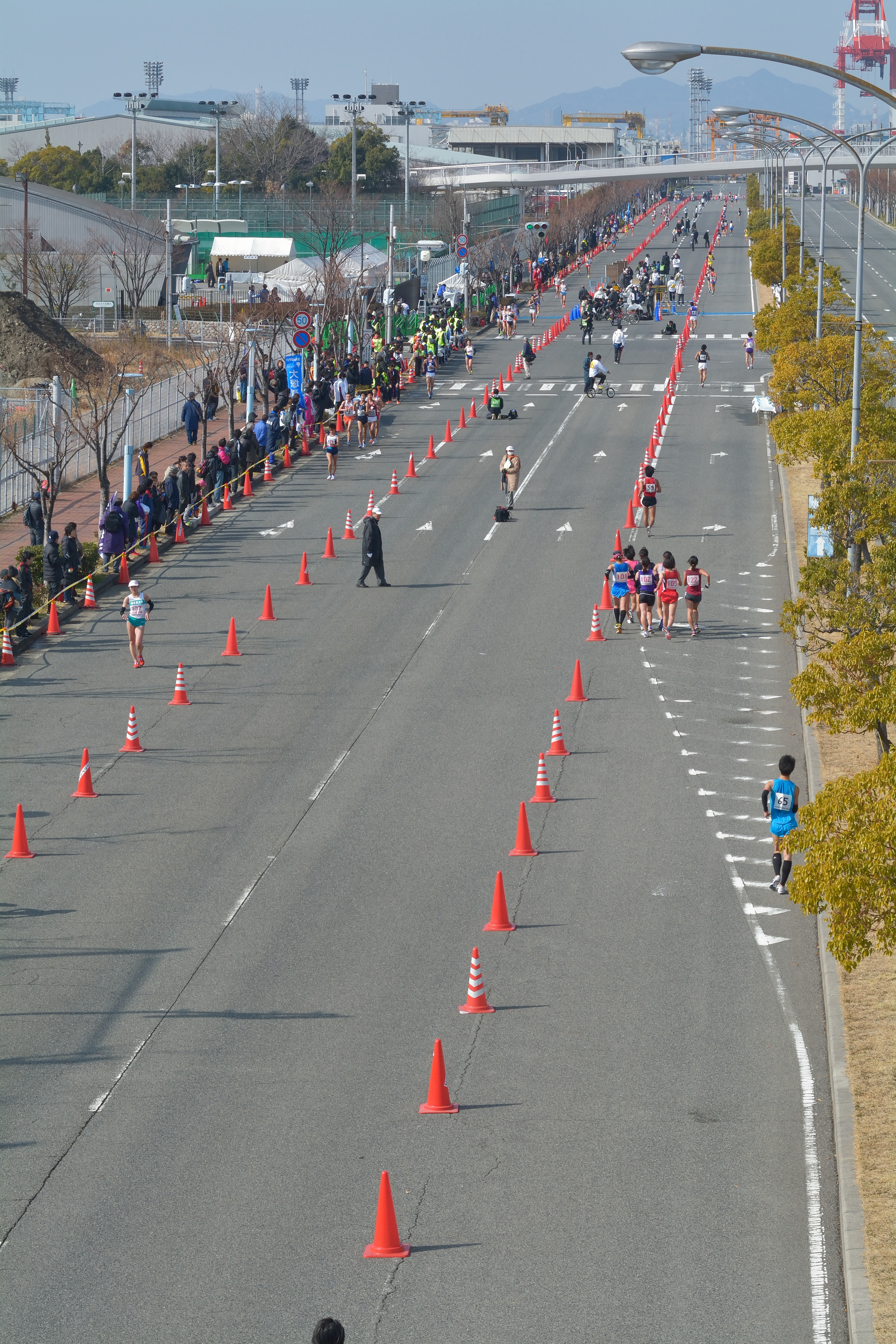 20km Race Walking at 2014 Japan Championships in Athletics in Rokkō Island, Kobe.